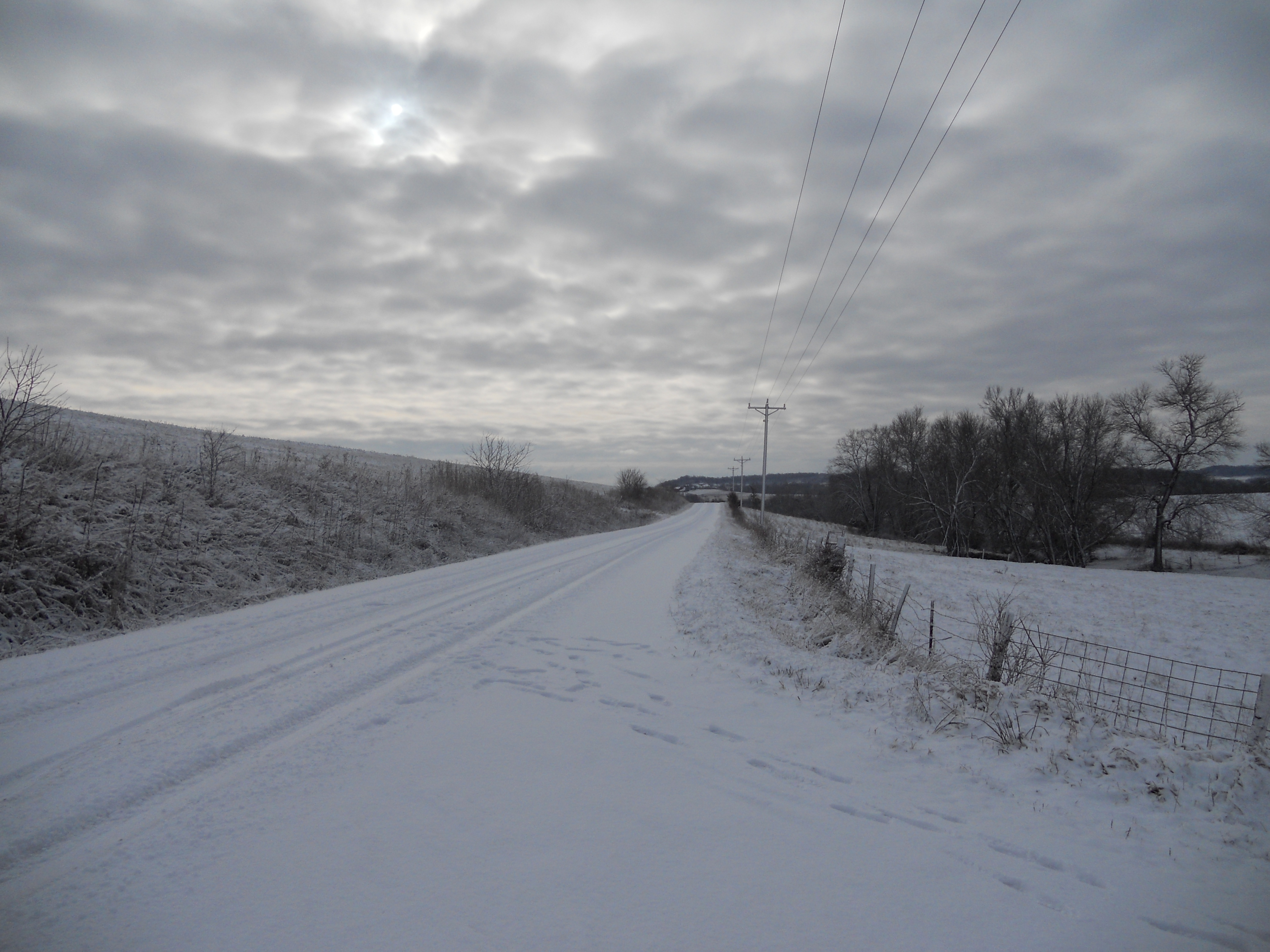 Snowy scene amidst farmland in Clayton County, Iowa, USA